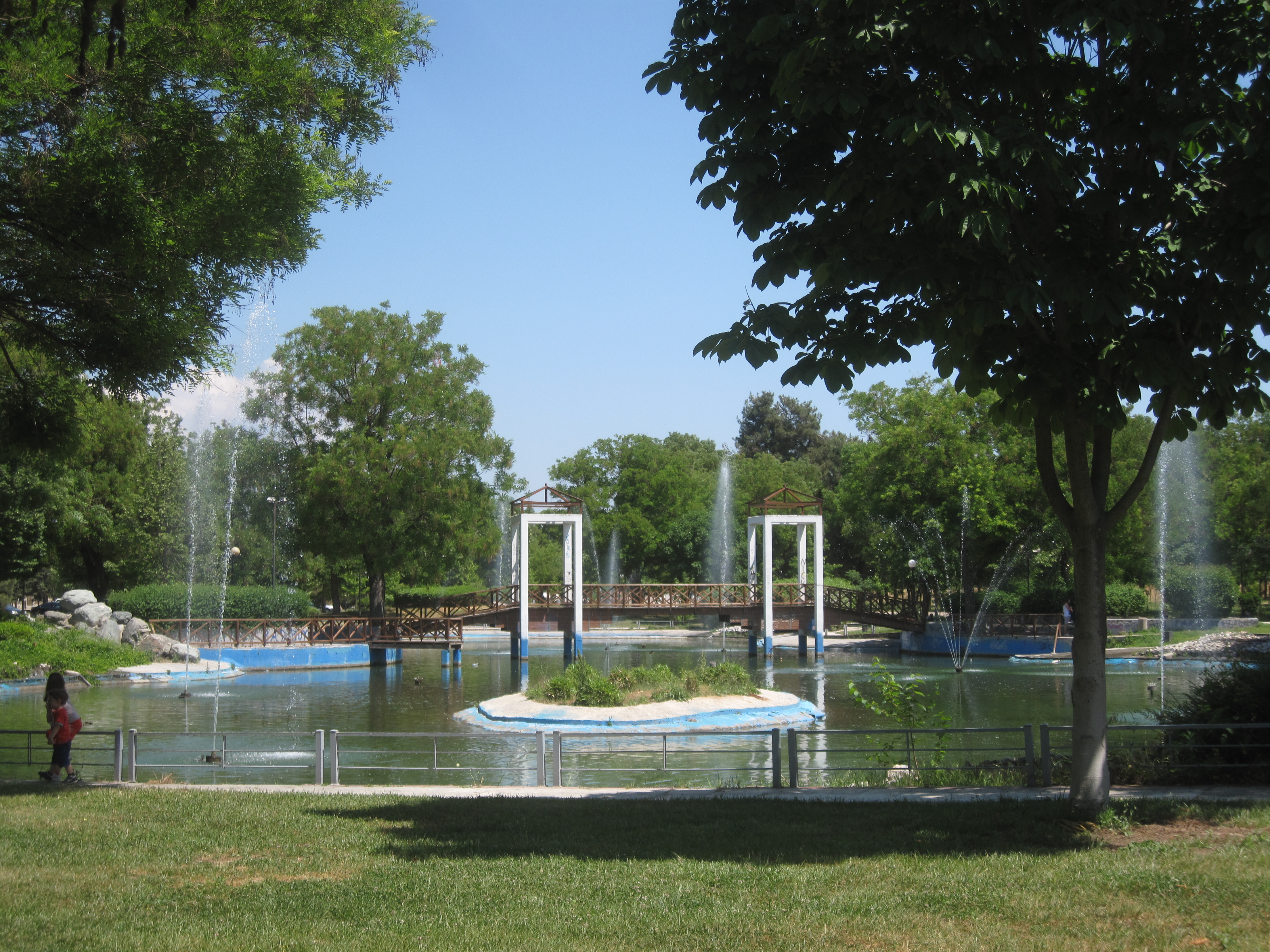 Alkazar Park (lake) - Larisa (Greece)